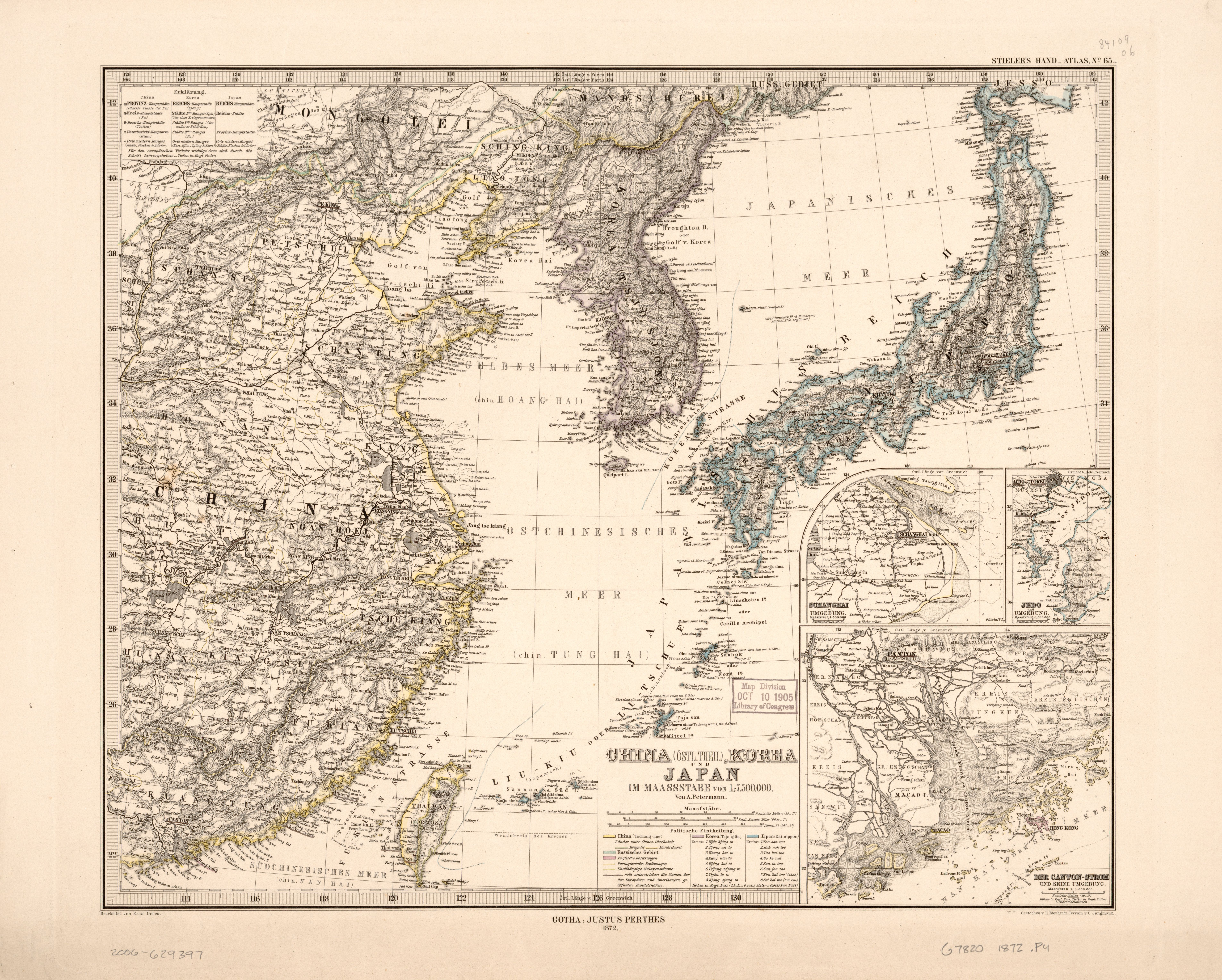 Relief shown by hachures. Prime meridians: Greenwich, Ferro, Paris. From Stieler's Hand-Atlas. 1872. In upper left: Stieler's Hand Atlas, N⁰ 65. Insets: Schanghai und Umgebung -- Jedo und Umgebung -- Der Canton-Strom und seine Umgebung. Available also through the Library of Congress Web site as a raster image.